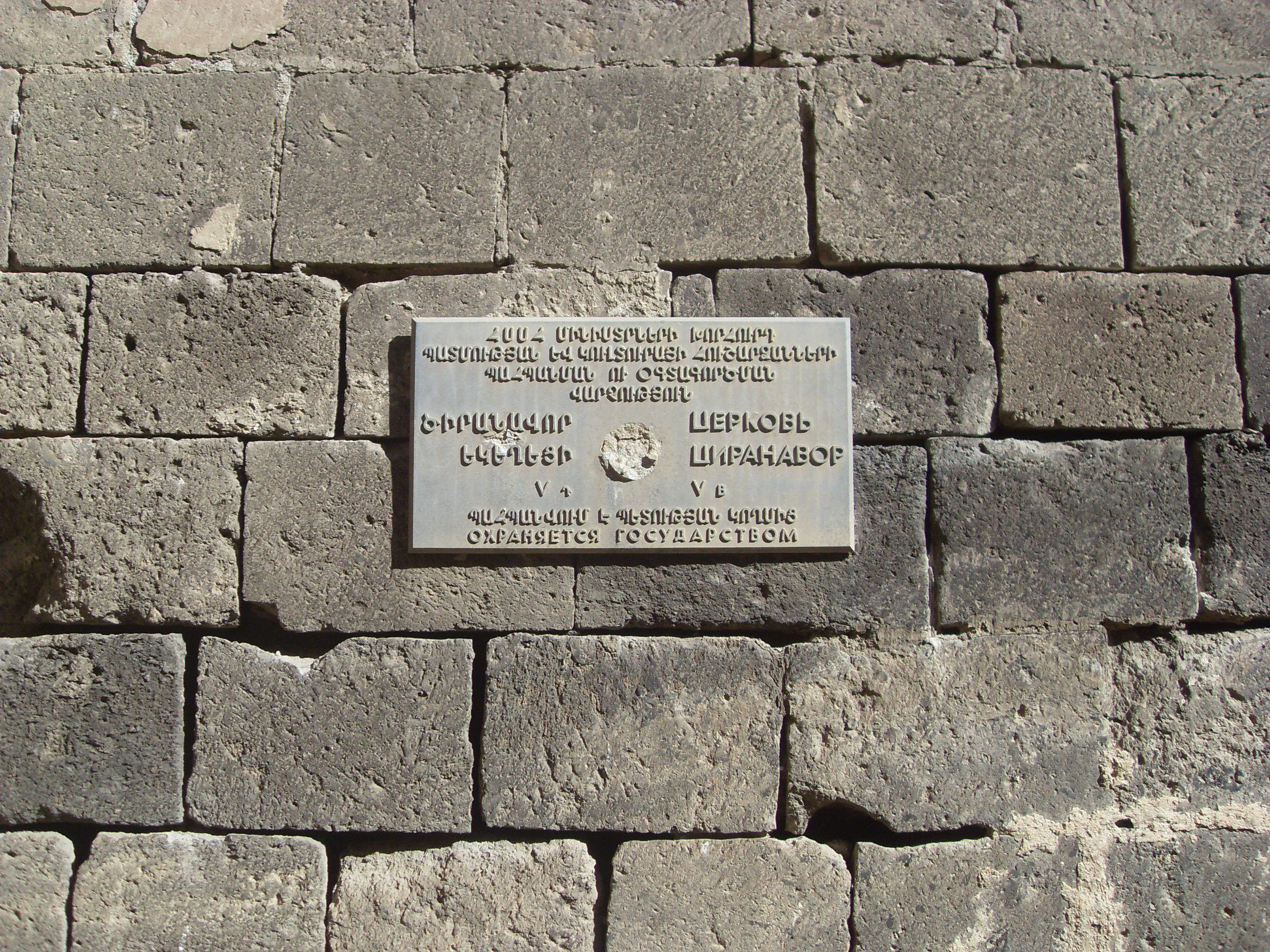 Tsiranavor church, Ashtarak, 5th cent. 1/16